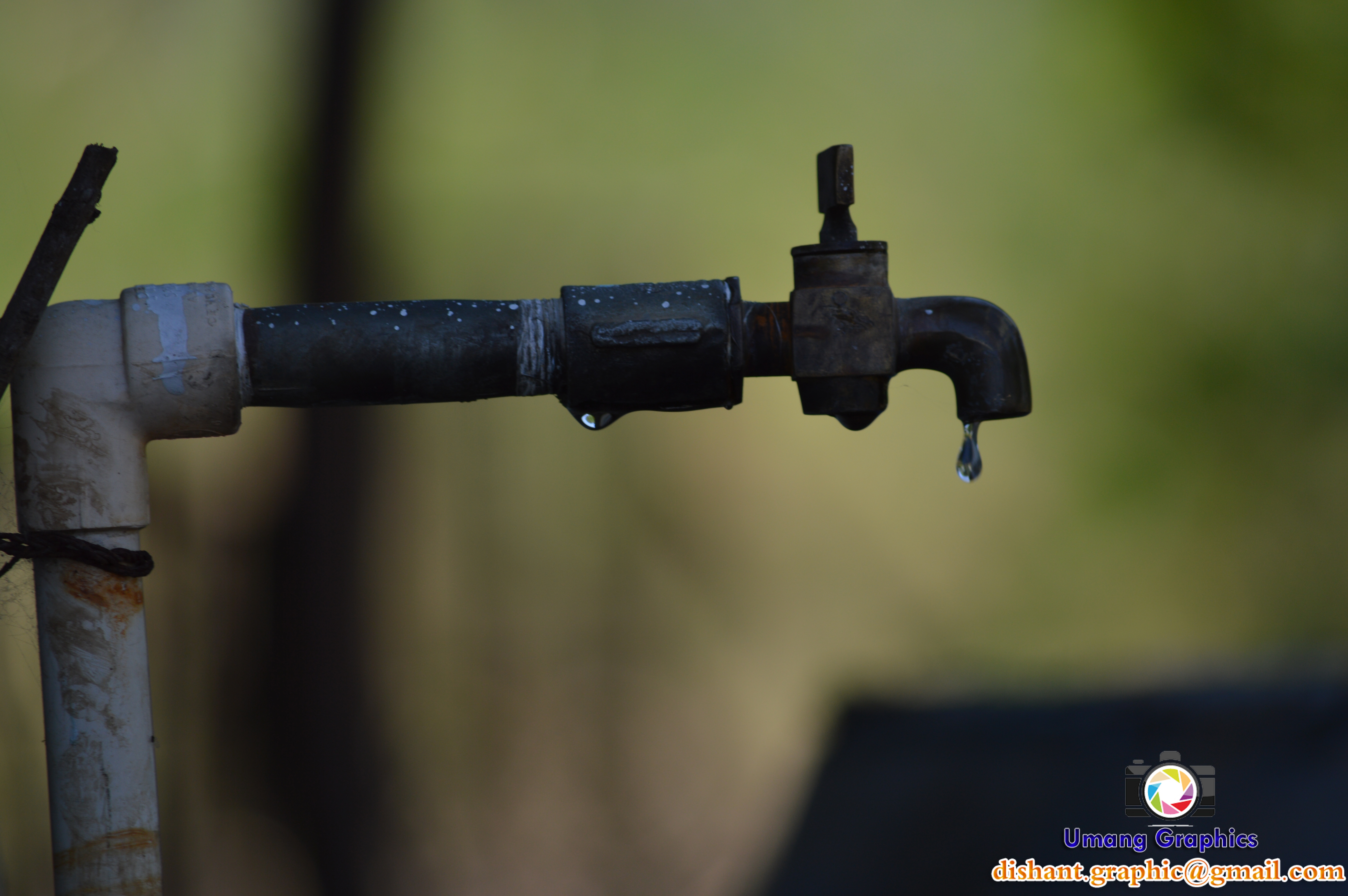 tap water